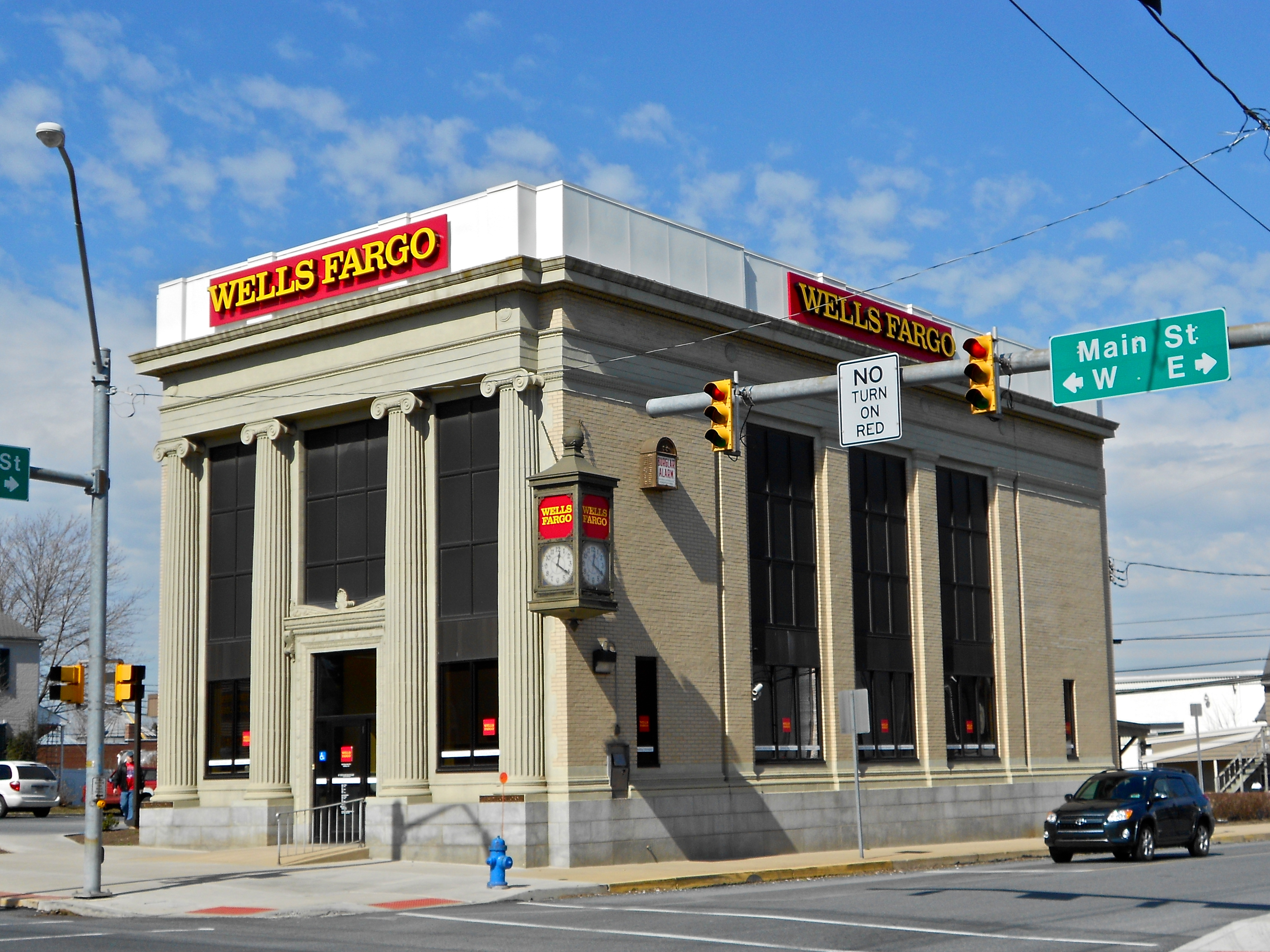 Bank in Mount Joy, Lancaster County, Pennsylvania.